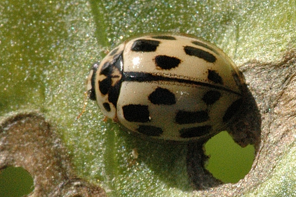 Picture taken in Commanster, Belgian High Ardennes . Species: Propylea 14-punctata